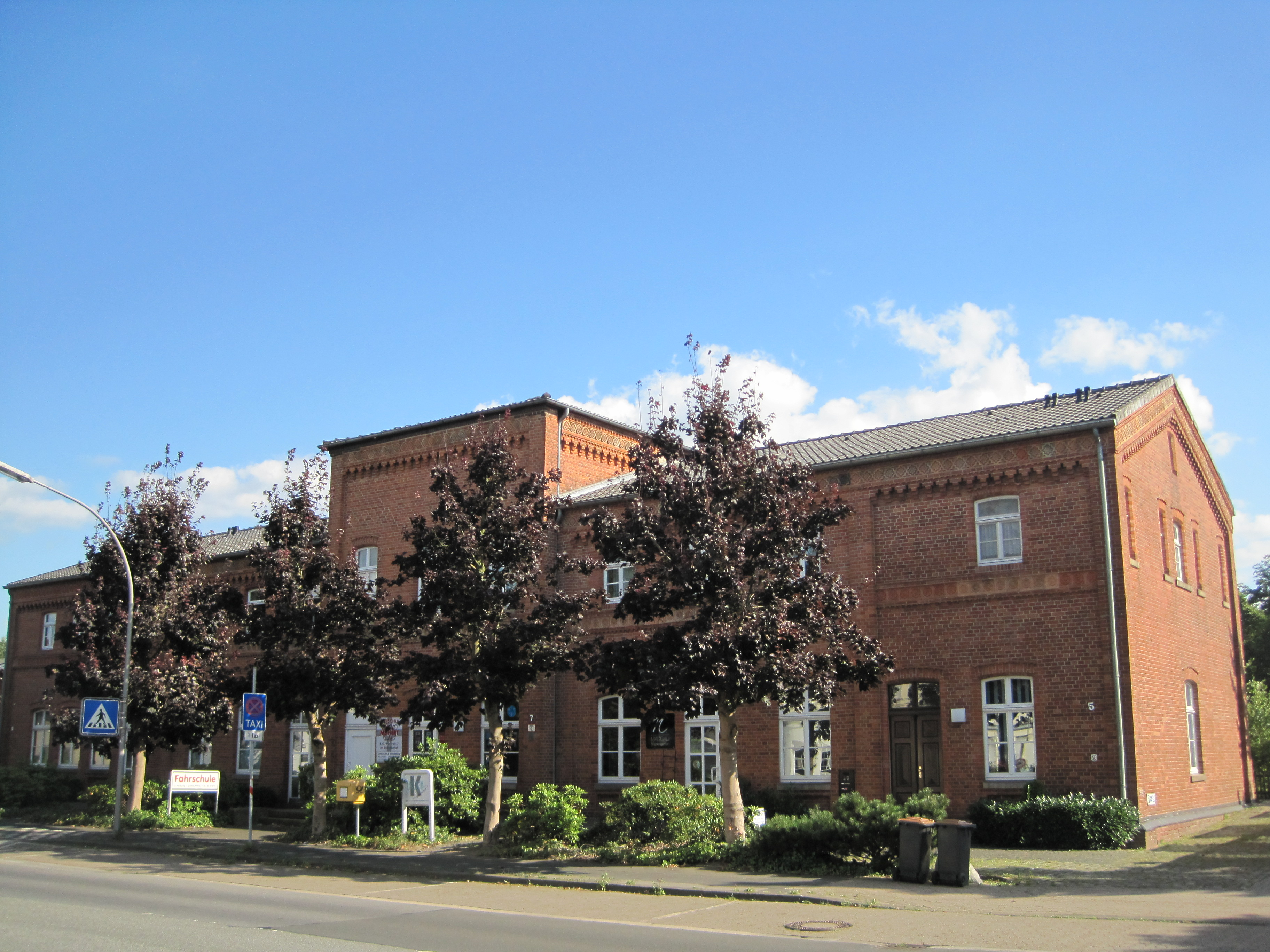 Cultural monument Weserstraße 5, train station Bad Oeynhausen Süd, Bad Oeynhausen, Germany This image shows a heritage building in Germany, located in the North Rhine-Westphalian city Bad Oeynhausen (no. 132). check usage Address Weserstraße 5 32545 Bad Oeynhausen Germany Date12 August 2012SourceOwn work. (→ weitere 2,022 Bilder von mir in der Galerie)AuthorStefan FlöperPermission (Reusing this file) cc-by-sa-3.0, gfdl 1.2+